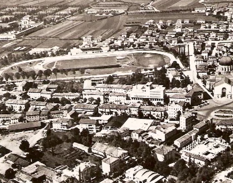 Aerial view of the former Stadio Moretti (1924-1998) in Udine, Italy